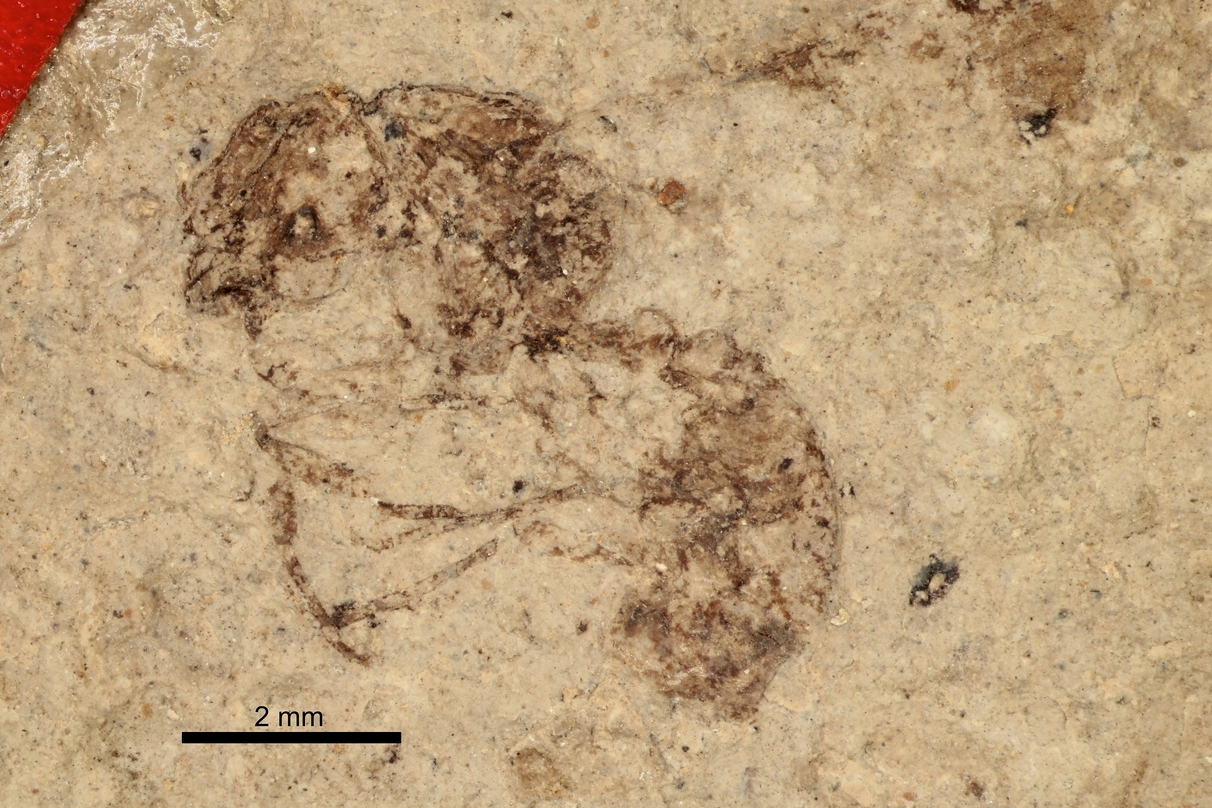 Over view of the Aphaenogaster mayri paratype. Specimen "BMNHP27352".